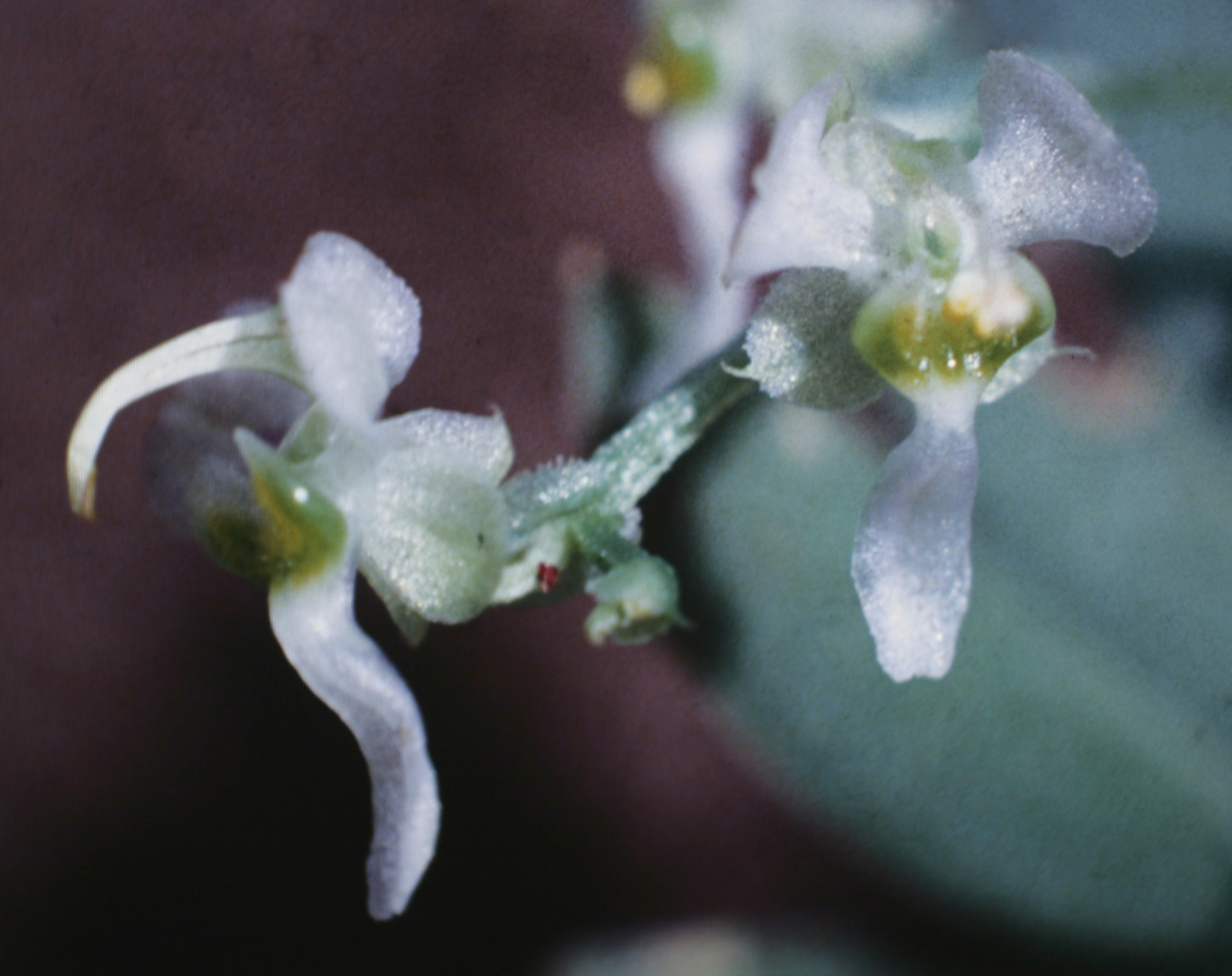 Ornithocephalus gladiatus, Suriname.